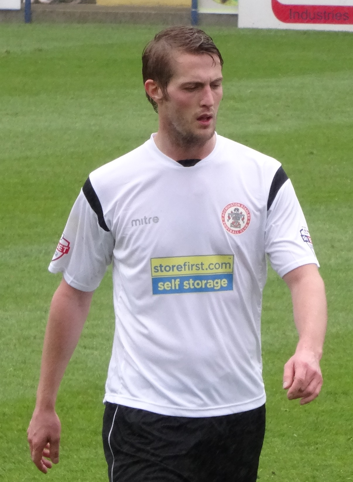 Rob Atkinson.